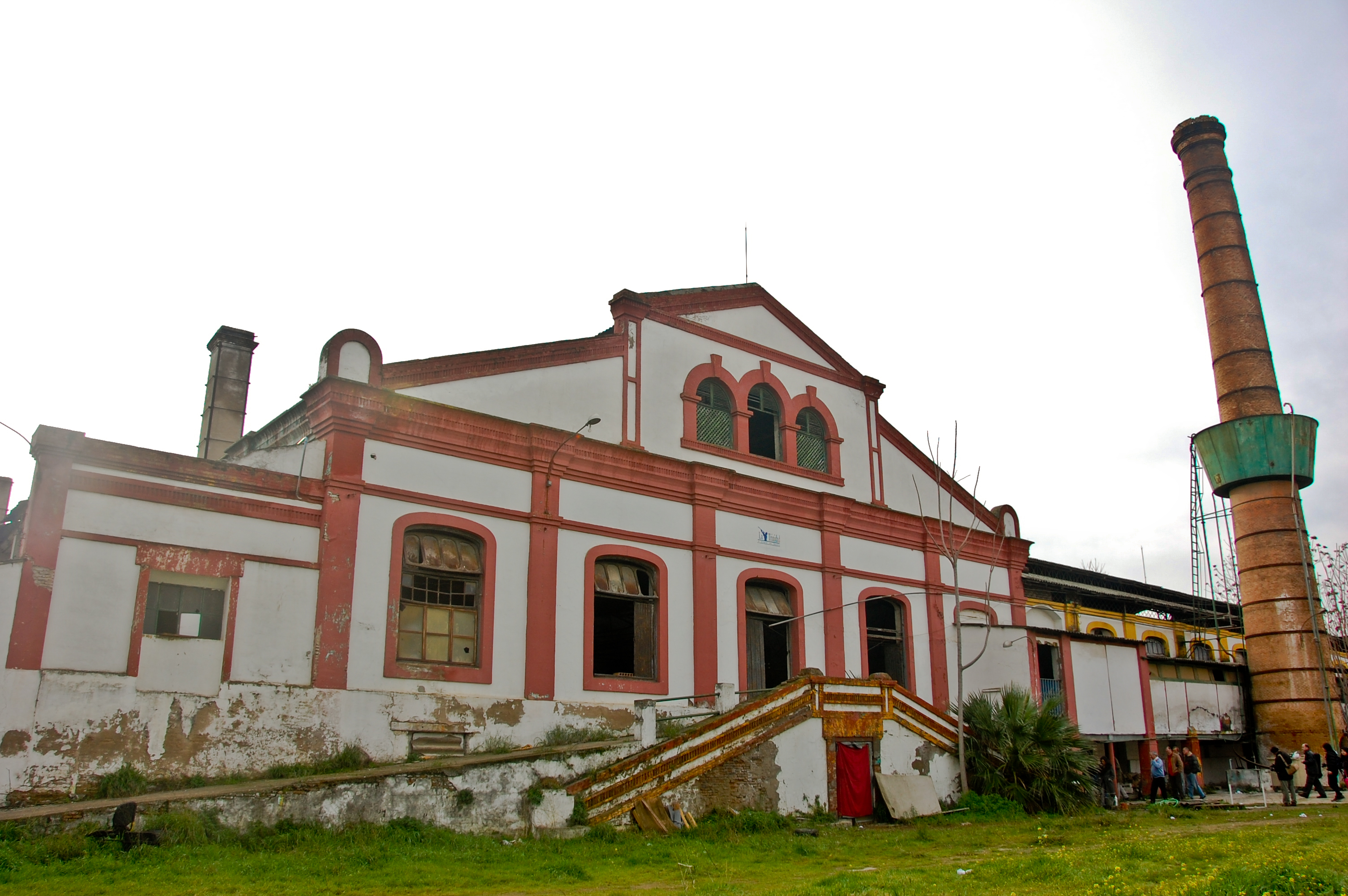 Factory was founded in 1902 which constitutes a unique example of industrial heritage of Seville